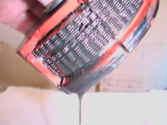 The oil inside of the VC. Andy Rusho